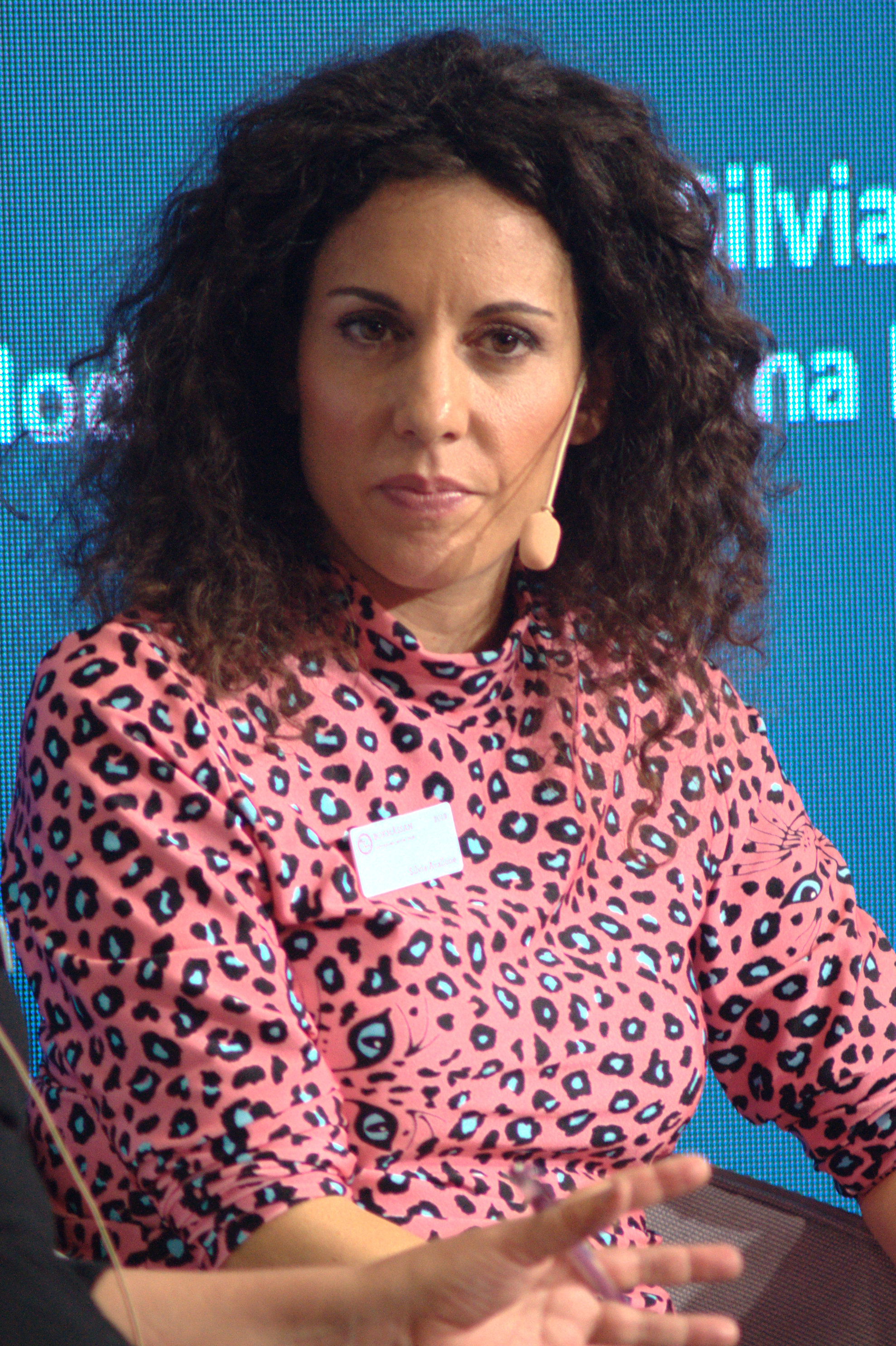 Silvia Avallone, Italian writer, at Göteborg Book Fair 2019.